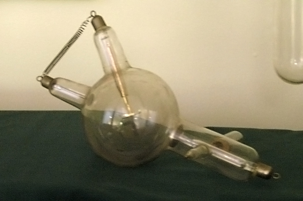 An early Crookes x-ray tube on display in the lobby of the Science Building at Winthrop University. These first generation 'cold cathode' tubes were used until about 1920. The electrode on the right is the cathode or negative electrode. The slanted electrode in the center of the bulb is the platinum anode or target. The electrode to the left is called the auxiliary anode. A high voltage applied between the cathode and anode ionized the small amount of residual air in the tube, creating cathode rays (electrons) at the cathode, which were accelerated and struck the anode, creating x-rays. The x-rays radiated through the side wall of the tube. The two projections on the neck of the tube to the right is a 'softening device' to control the pressure in the tube. With time the residual gas in Wikipedia:Crookes tubes was absorbed by the walls, increasing the vacuum. This reduced the amount of x-rays produced and resulted in 'harder' more energetic x-rays, until finally the tube stopped working. The 'softeners' used various techniques to release a small amount of gas into the tube, restoring it's function.